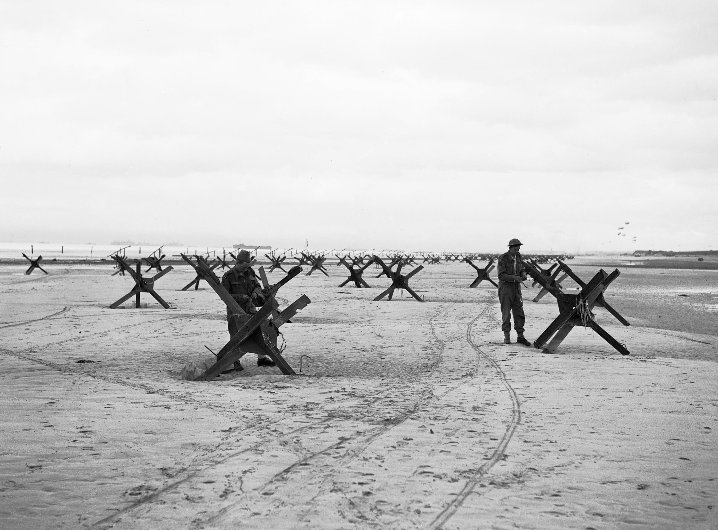 Operation Overlord (the Normandy Landings)- D-day 6 June 1944 The British 2nd Army: Royal Navy Commandos at La Riviere preparing to demolish two of the many beach obstacles designed to hinder the advance of an invading army.